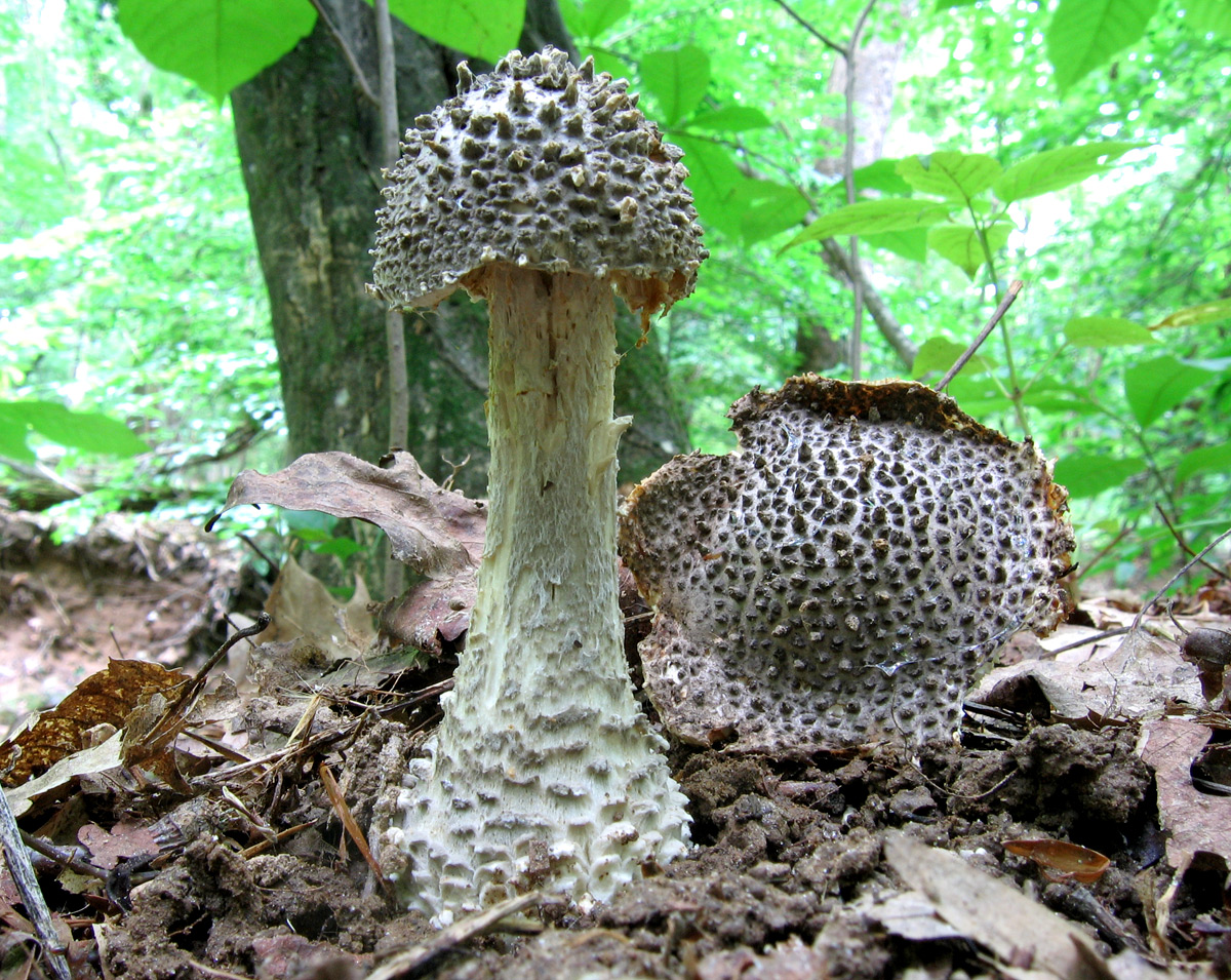 Amanita onusta (Howe) Sacc. Location: Montgomery County, Maryland, USA Observation Notes: These were growing right beside a trail near a creek. Image Notes: These were growing about 200 yards (182 m) down the trail from the first patch, 10 days later. For more information about this, see the observation page at Mushroom Observer.